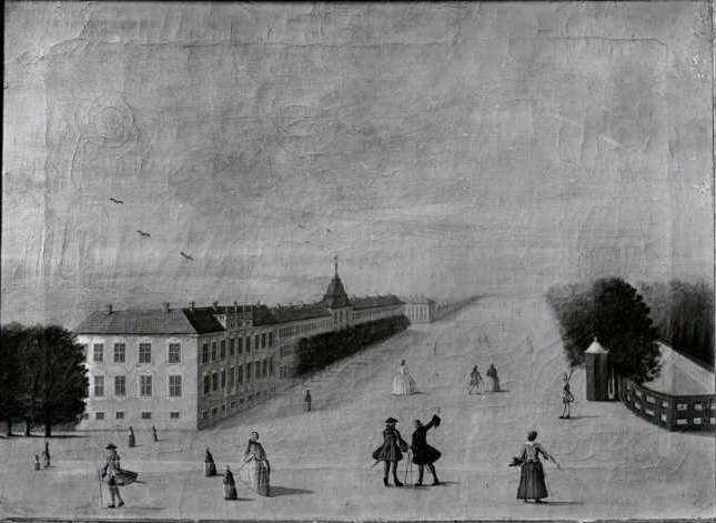 Grev Danneskjold-Laurvigens palæ - now Moltkes Palæ - in Copenhagen, Denmark